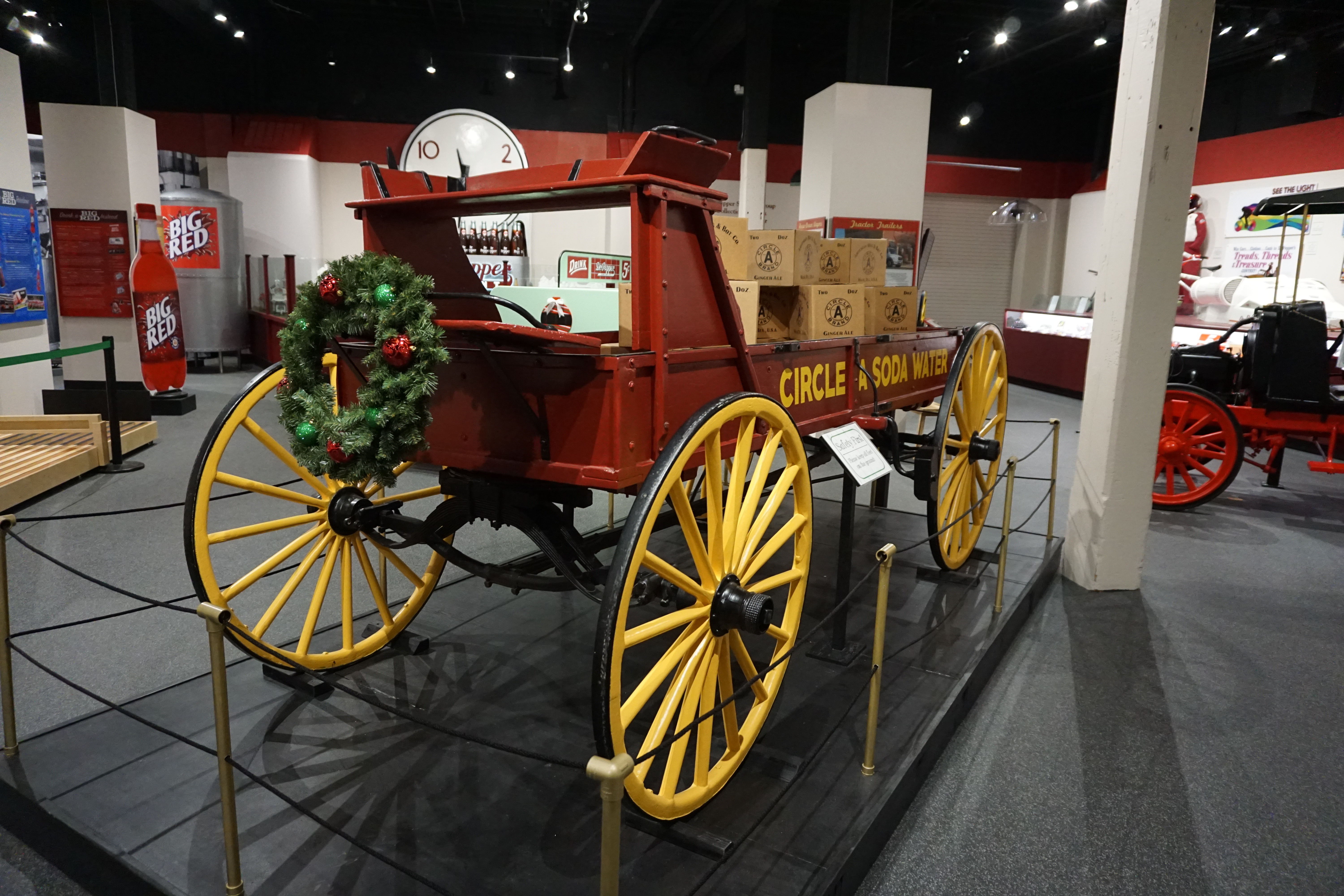 A Circle A Soda Water delivery wagon at the Dr Pepper Museum in Waco, Texas (United States).